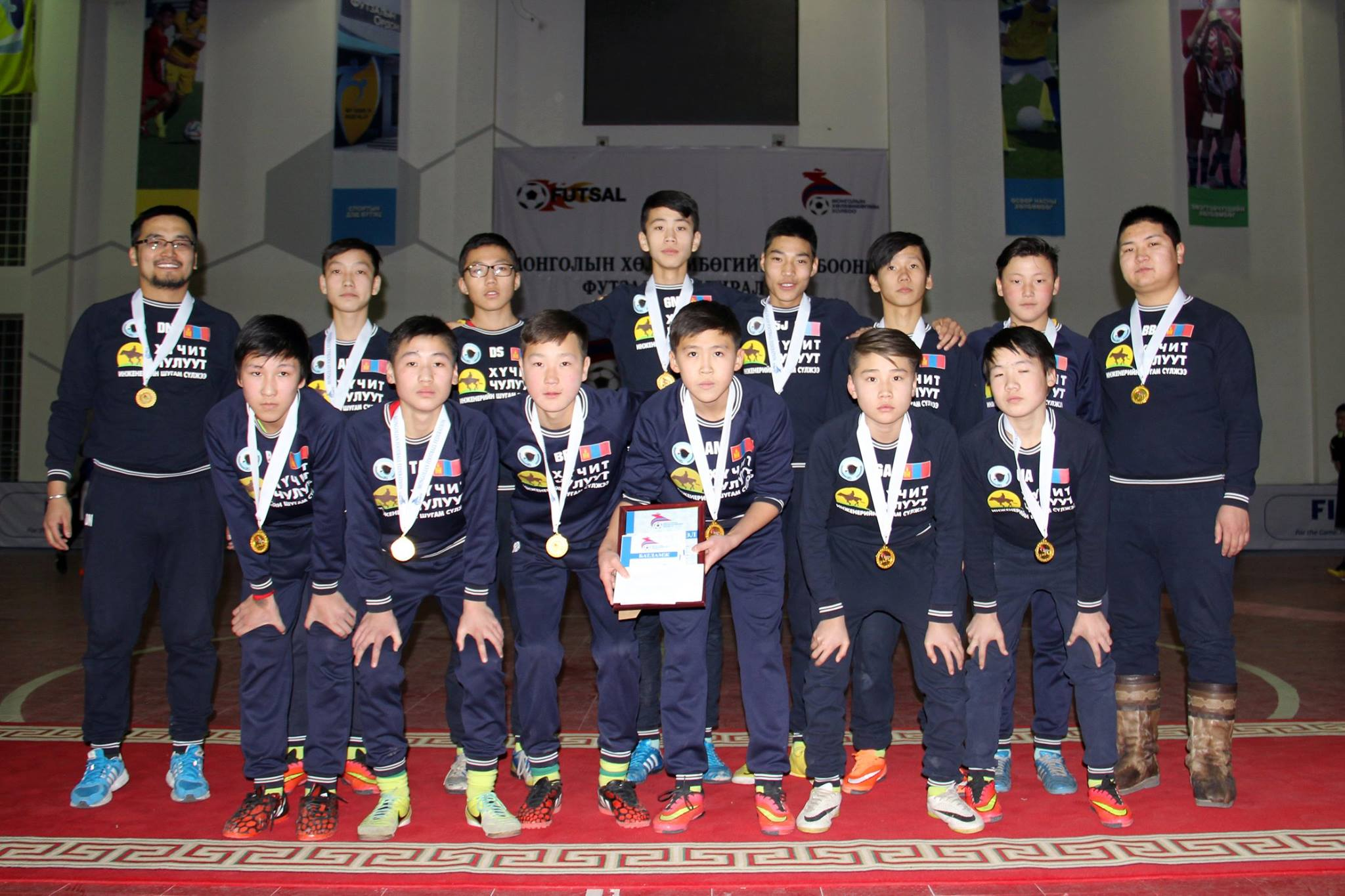 2015.02.07. МХБХ-ны футзалын өсвөр үеийнхний УАШТ-ий 15 хүртэлх насны ангиллын аварга баг.